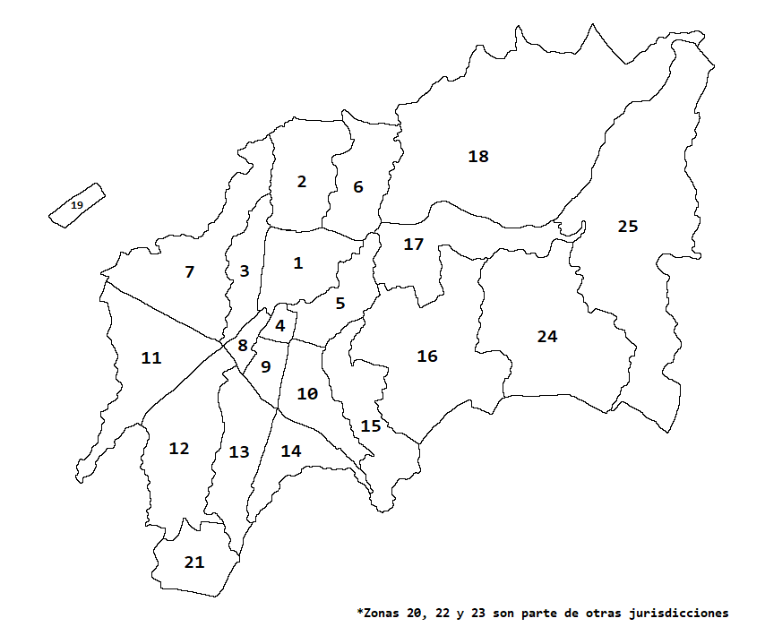 Guatemala City divided by zones.